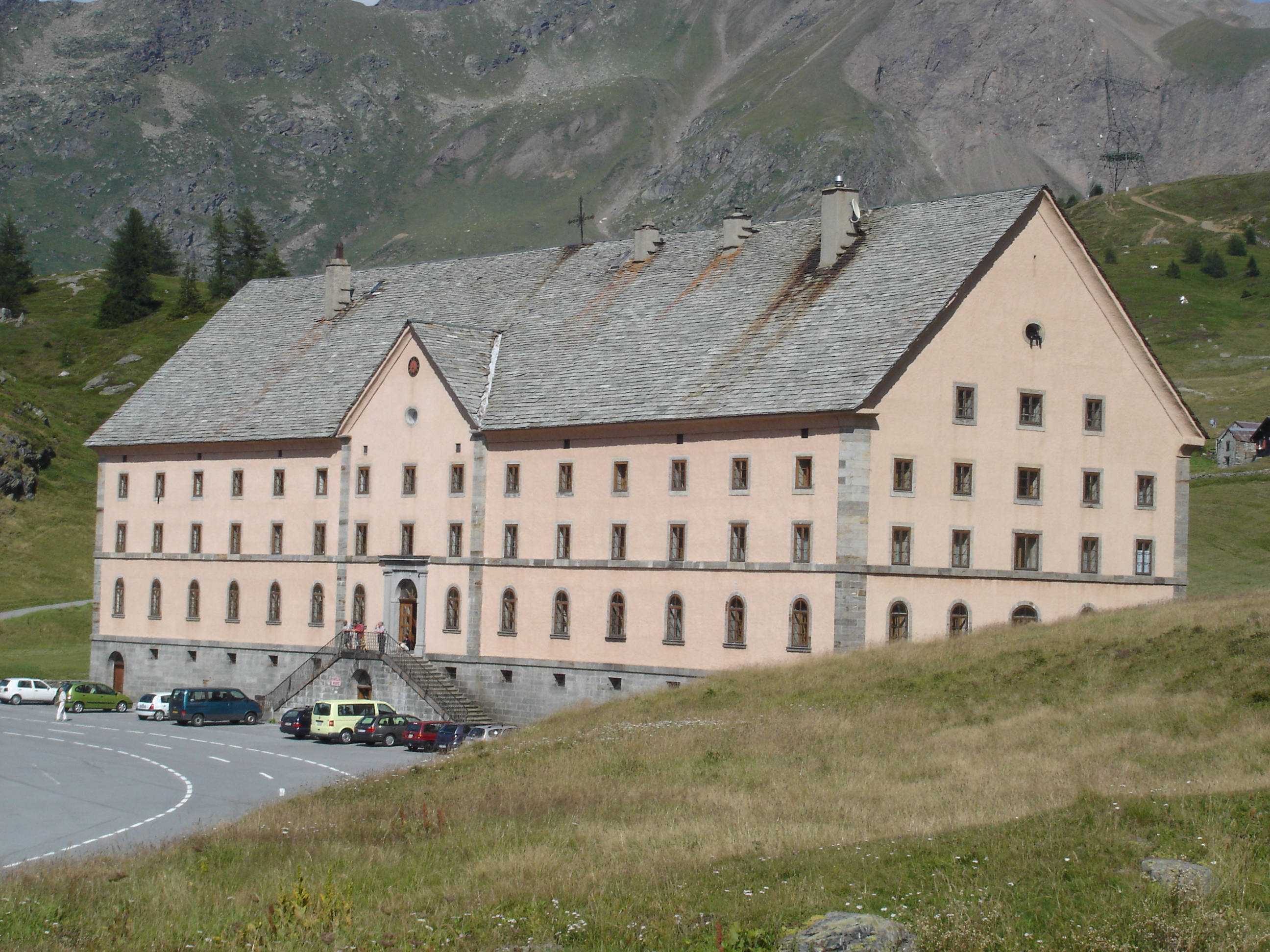 Simplon Hospitz